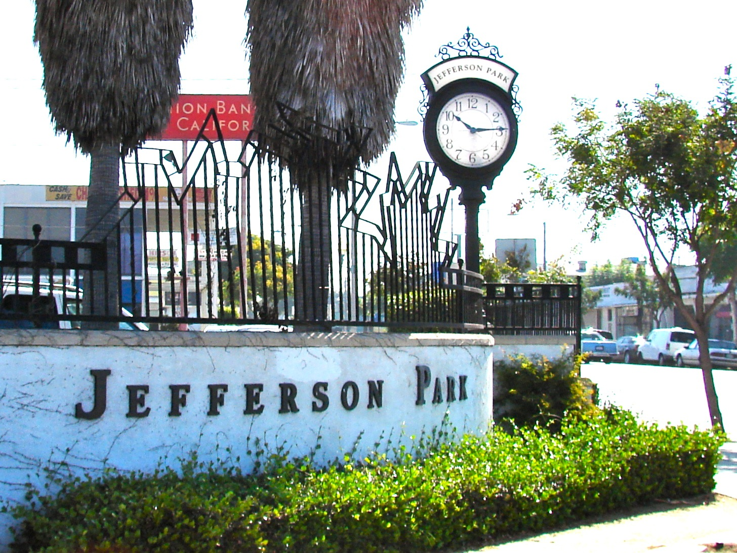 Jefferson Park neighborhood marker in Los Angeles, California